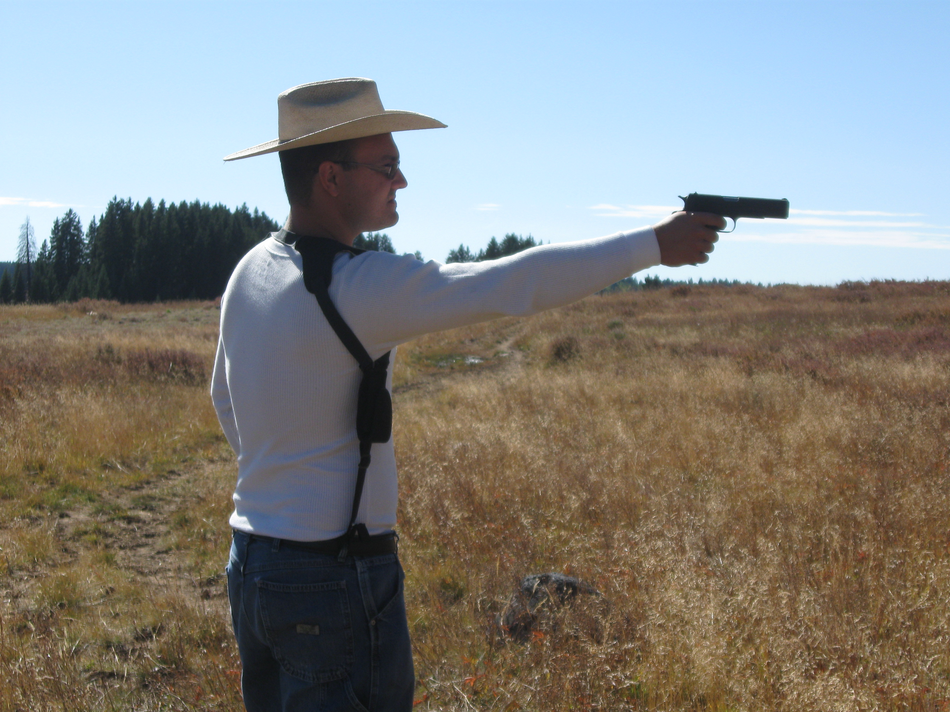 Photo Taken September 24, 2011